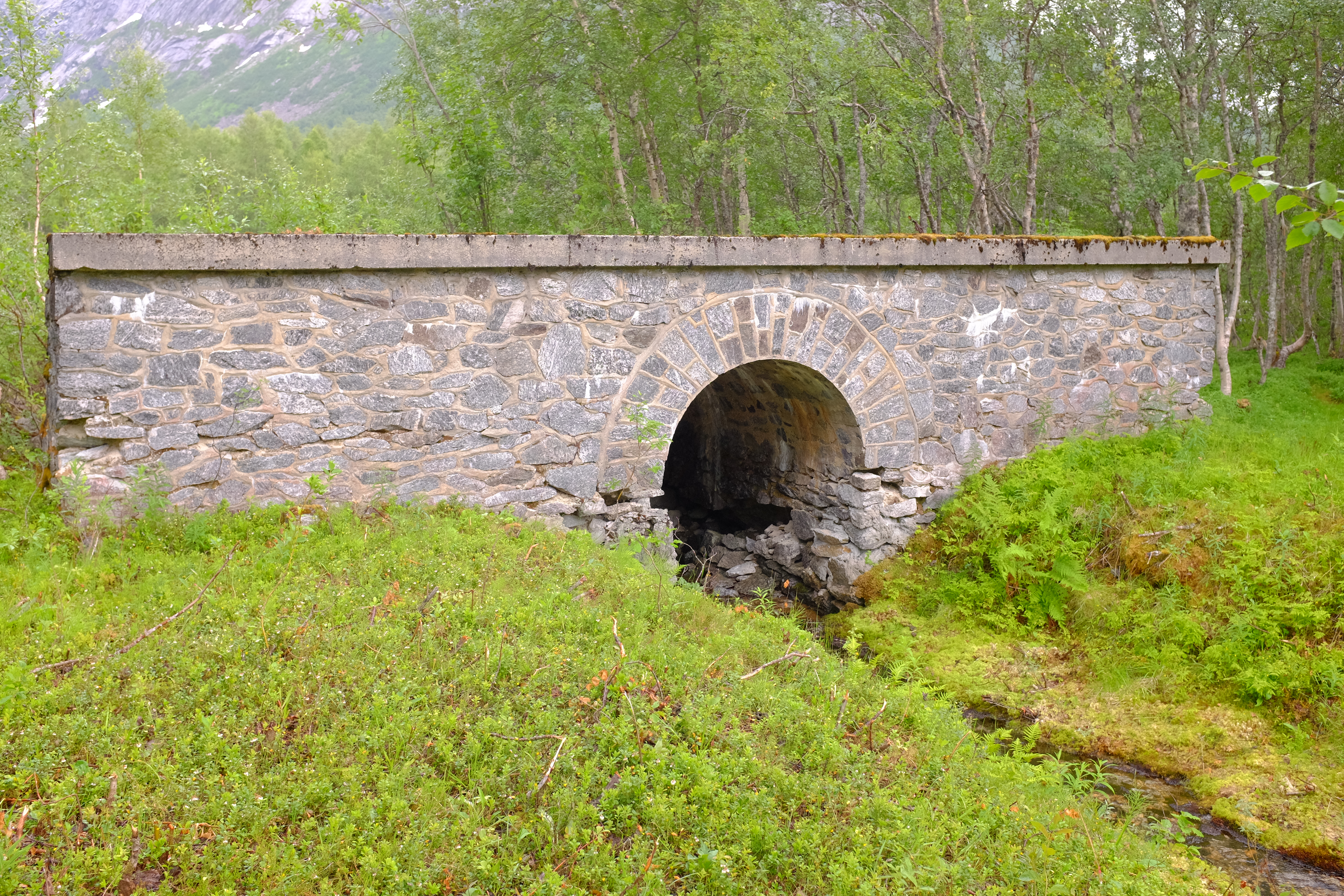 The Polar Line (German: Polarbahn) is an incomplete and abandoned railway line which had run northwards from Fauske, Norway, to Narvik and, if finished, ultimately would have run 1,215 kilometers to Kirkenes. This is a bridge over a stream in the lower part of Gjerdalen in Sørfold, Nordland, Norway.